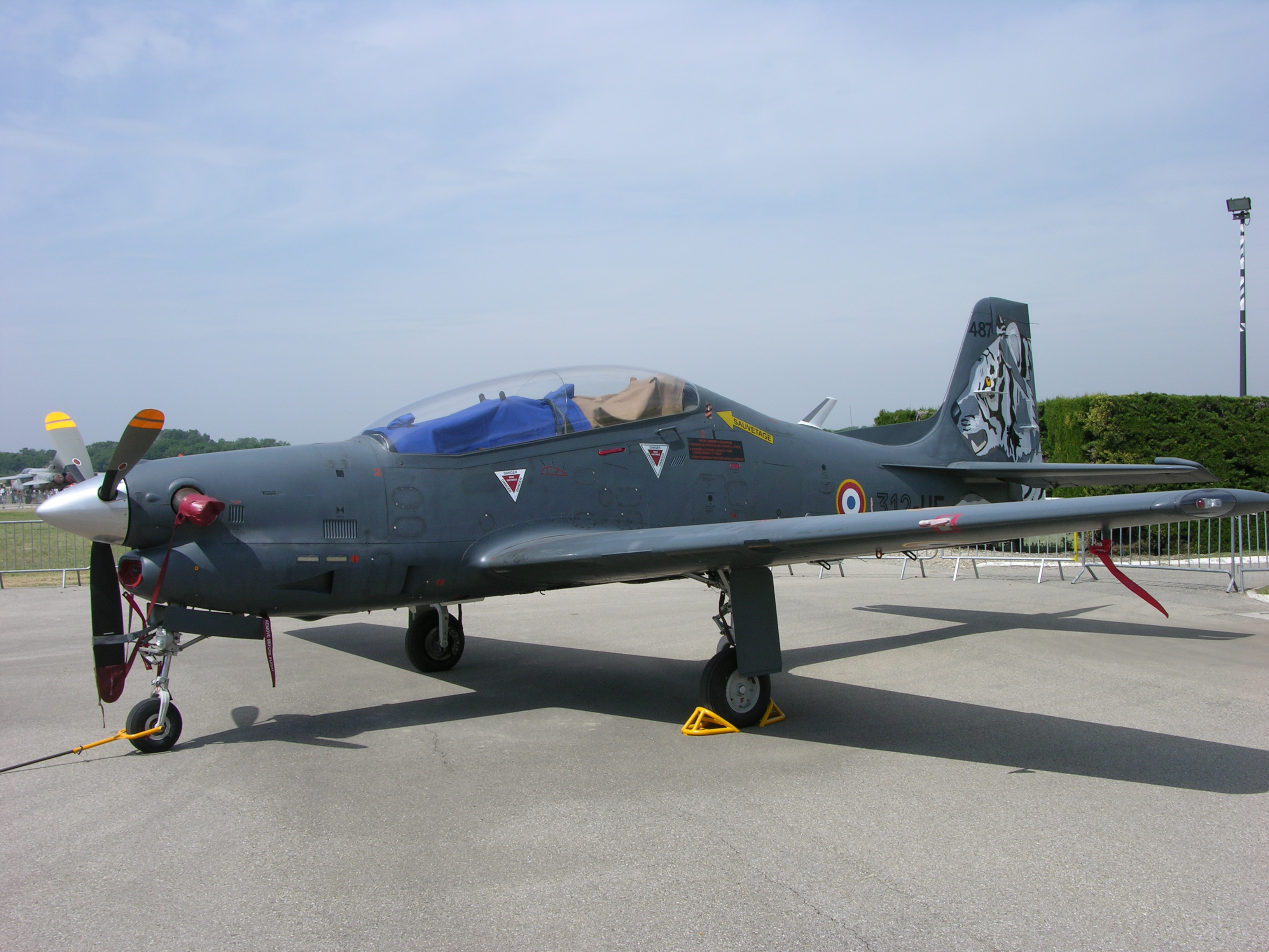 Tiger marked Tucano at its home base in May 2007